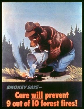 Smokey Bear's first appearance on a Forest Fire Prevention campaign poster, released on August 9, 1944. From: Smokey Bear's image and name is covered in the USA by a special law, the Smokey Bear Act. This law makes it illegal to misuse Smokey's image without permission. However the work is copyright free.